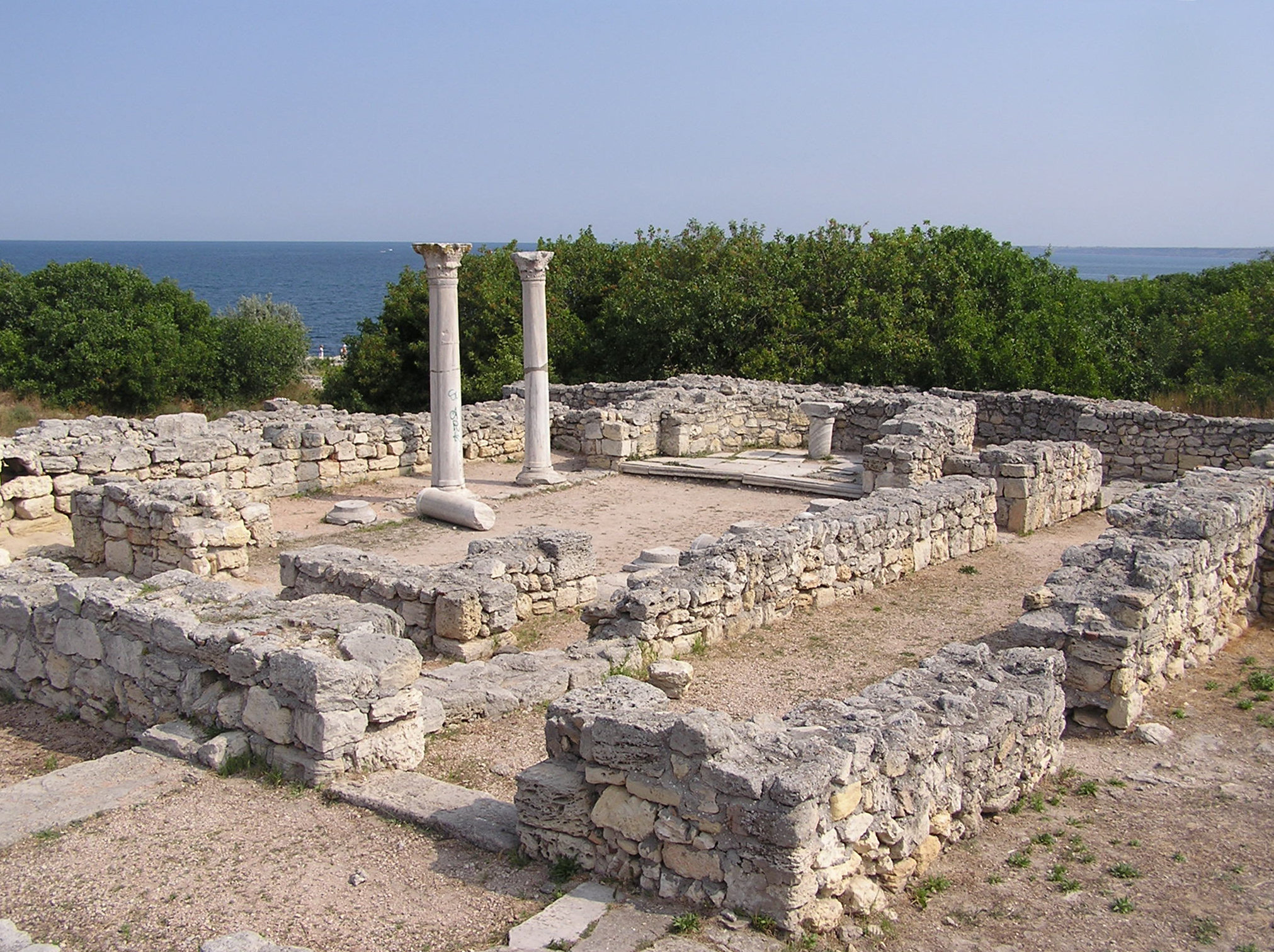 Sebastopol (Crimea, Ukraine). Ruins of Chersonesos Taurica. Basilica in basilica - a medieval church in the Chersonesos Taurica - city, founded by the ancient Greeks in the south-west coast of the Crimea (now - in the National Museum "Chersonesos Taurica"). Temple got its name from the fact that at one point had been built two temples - the second was built on the ruins of the first of its wreckage.